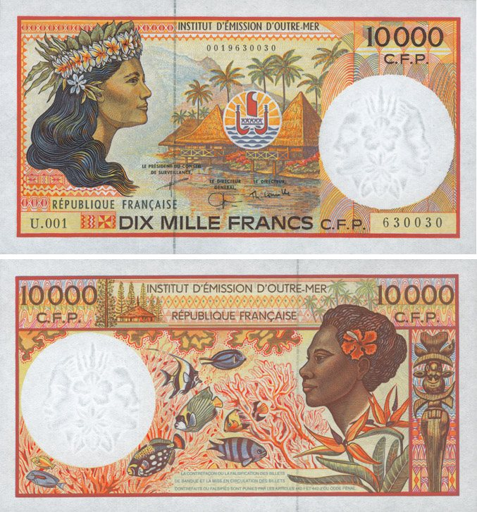 10000 pacific francs bill